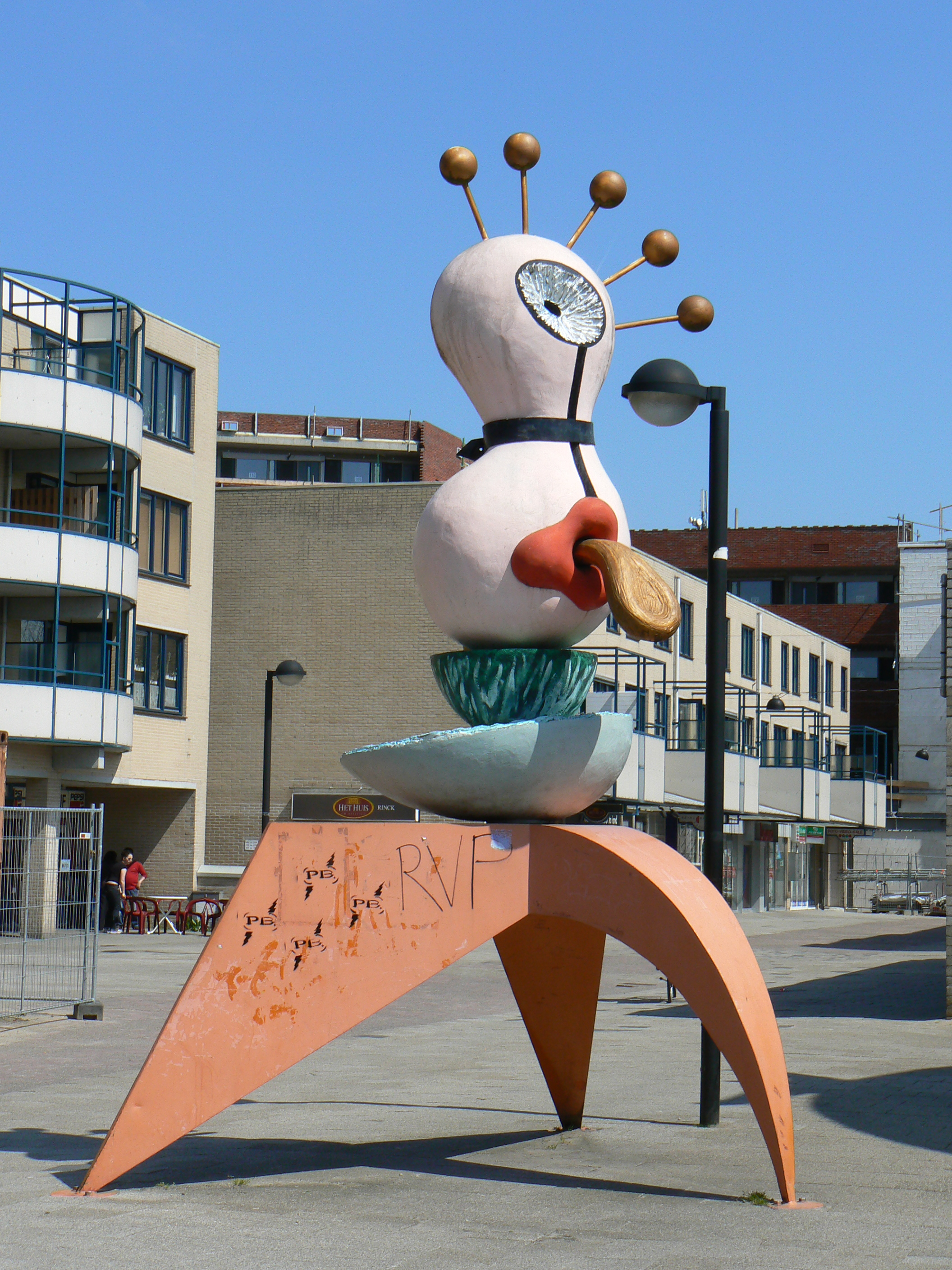 sculpture Au bain Marie (1989) by A. Schabracq in Zwolle/The Netherlands